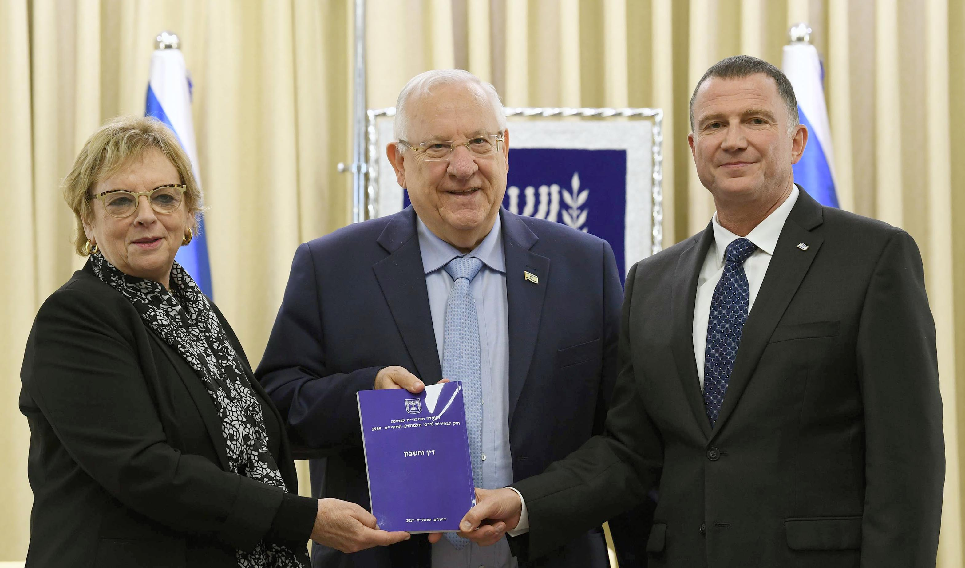 The President of Israel Reuven Rivlin receives the report of the Public Committee to Examine the Elections Law Tuesday, November 21, 2017. Photo Credit: Mark Neyman / GPO.